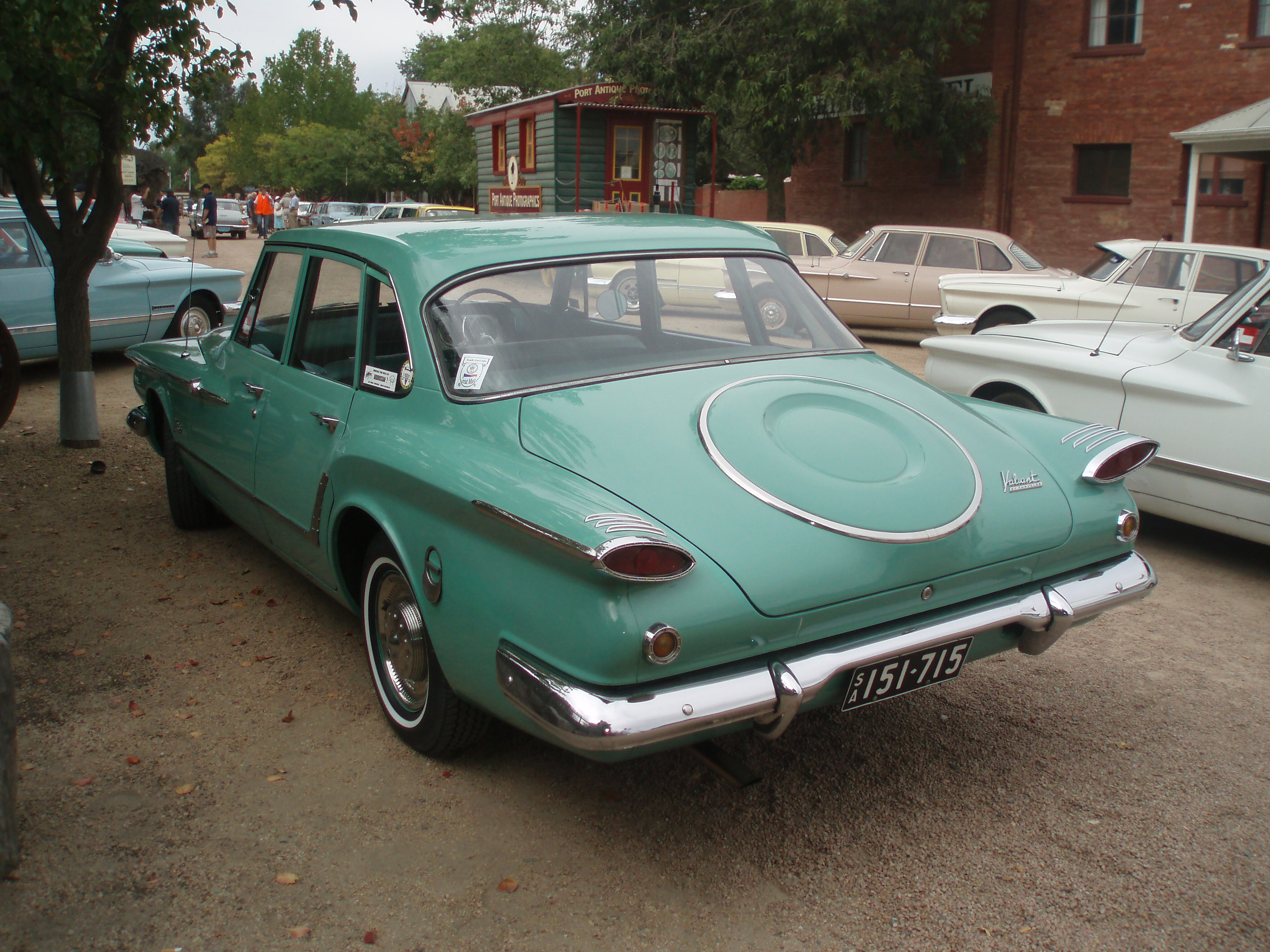 1962 Chrysler RV1 Valiant sedan (R series). Taken in Echuca Victoria. The R Series was basically a US 1961 Plymouth Valiant assembled in Adelaide from kits by Chrysler Australia. They had several features that were unique to Australian models, in order to make them more suited to our conditions, as well as to meet minimum local content regulations. Chrysler Australia built 1,008 R series Valiants, and they sold out in six weeks. This car was on display as part of the 4th National Rally of R & S Series Valiant Car Clubs of Australia which was based in Bendigo.